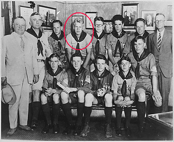 President Gerald R. Ford (circled in red) poses with other Eagle Scouts and Michigan Governor Fred Green (far left, holding hat), Mackinac Island (1929).